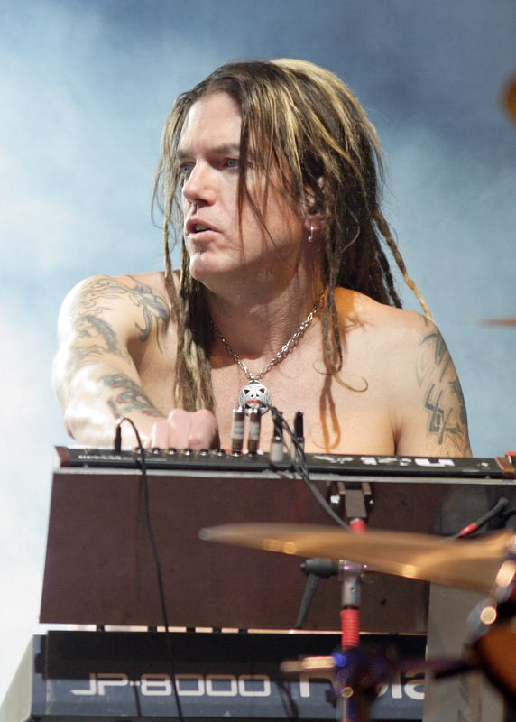 Dizzy Reed, keyboardist for Guns N'Roses. KROQ Inland Invasion 2006